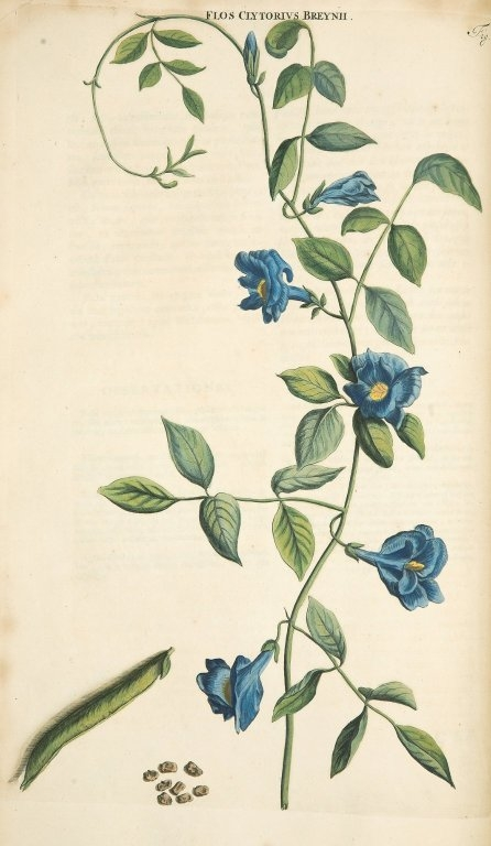 Illustration of the clitoris-shaped flower described by Jacobus Breyn in his 1678 Exoticarum plantarum centuria prima. From Horti medici Amstelodamensis, vol. 1, facing p. 47.